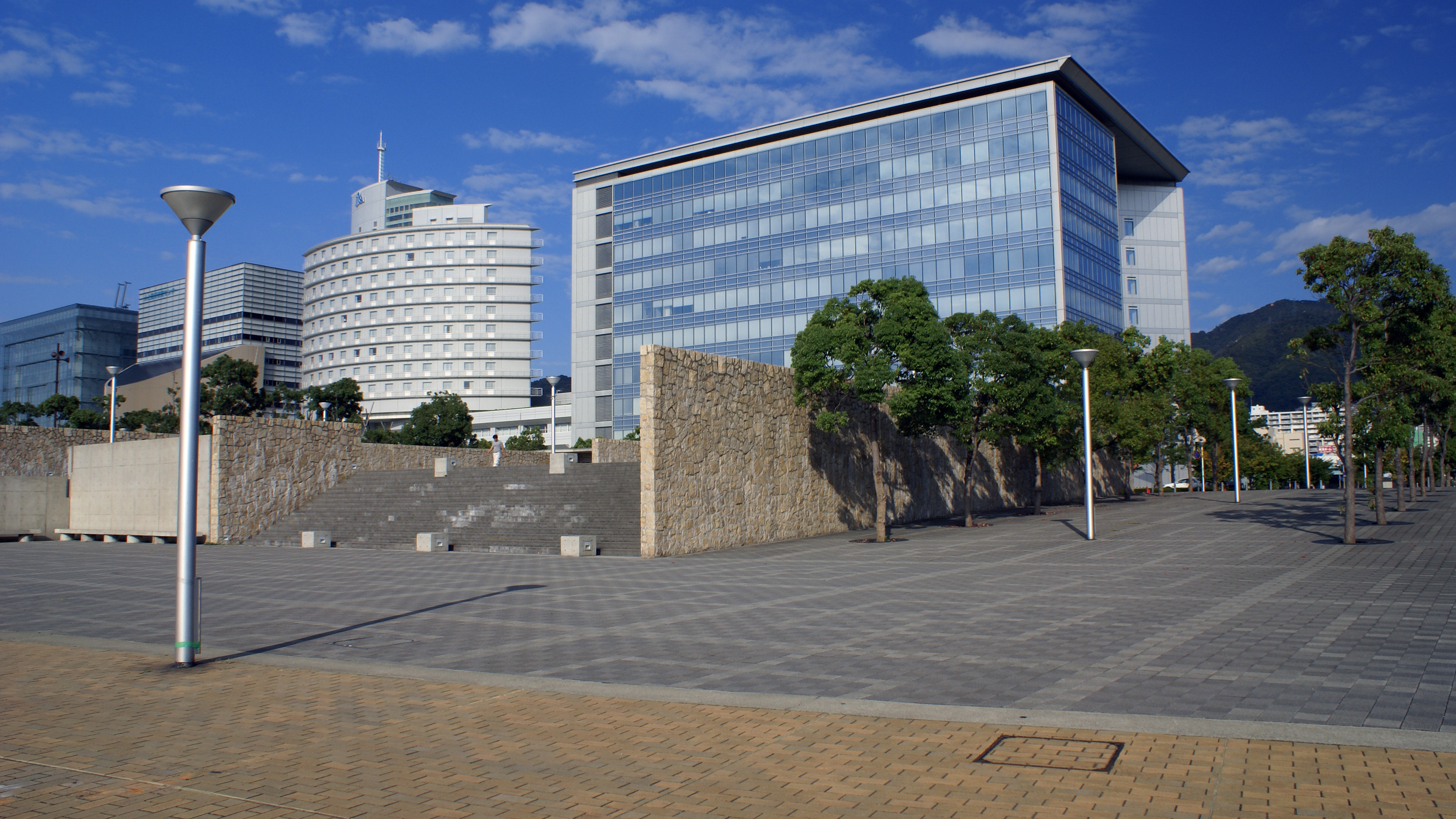 WHO Kobe Centre For Health Development in HAT Kobe, Kobe, Hyogo, Japan